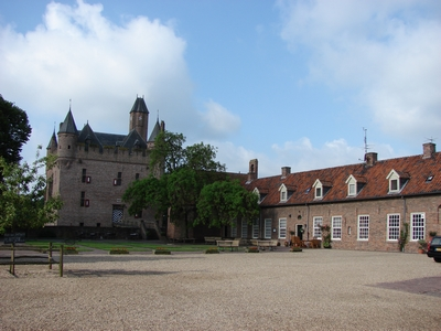 Castle Doornenburg, Netherlands